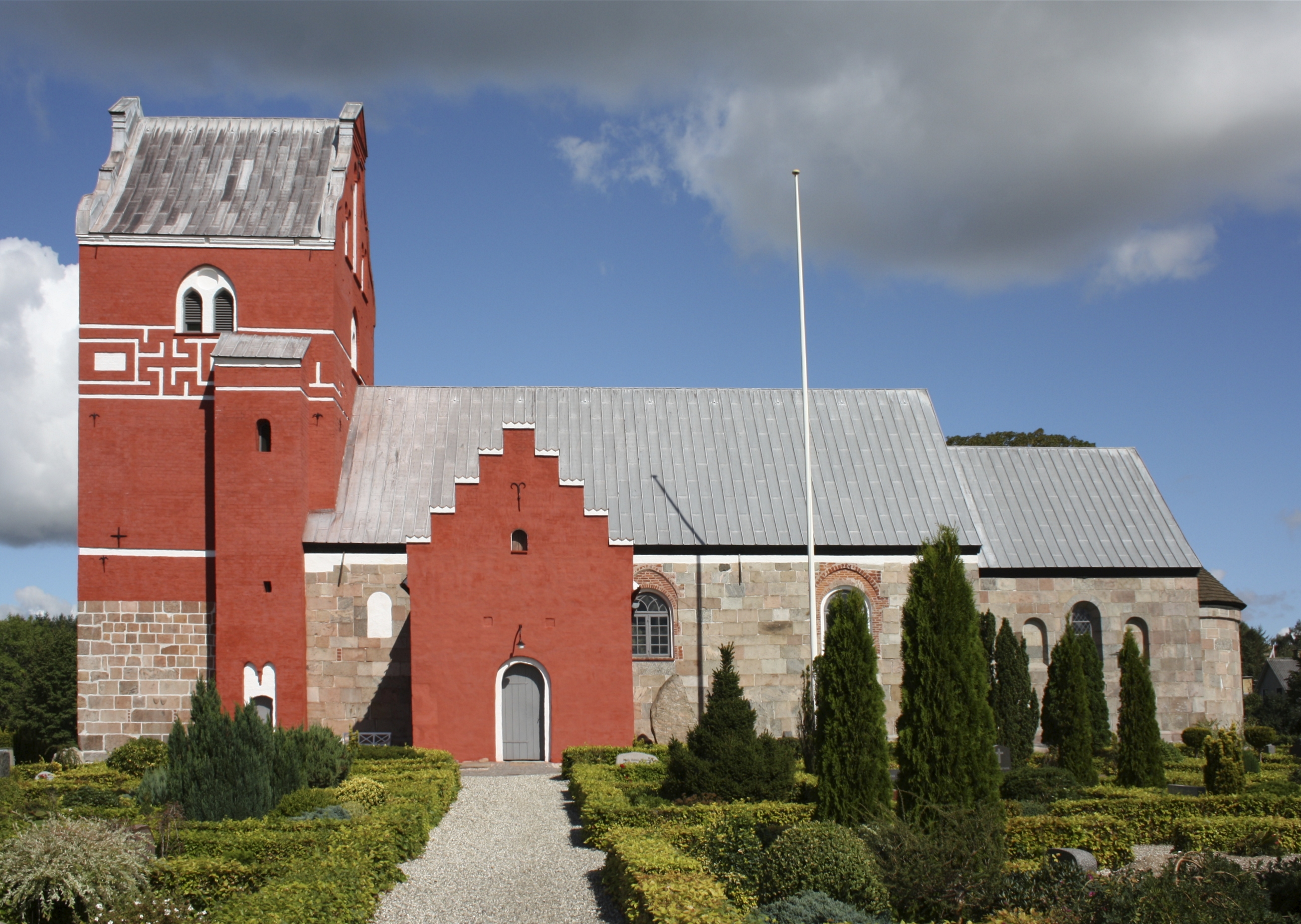 Ålum Church, Mid-Jutland, Denmark. Ålum kirke set fra syd.